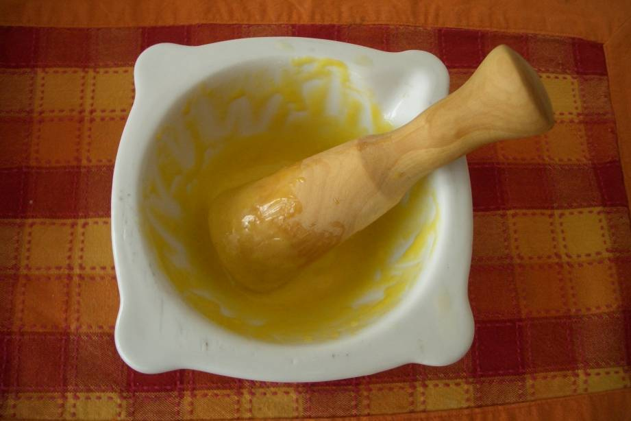 Selfmade Allioli/Aioli after a Catalan recipe, consisting of garlic, salt, egg, and olive oil.